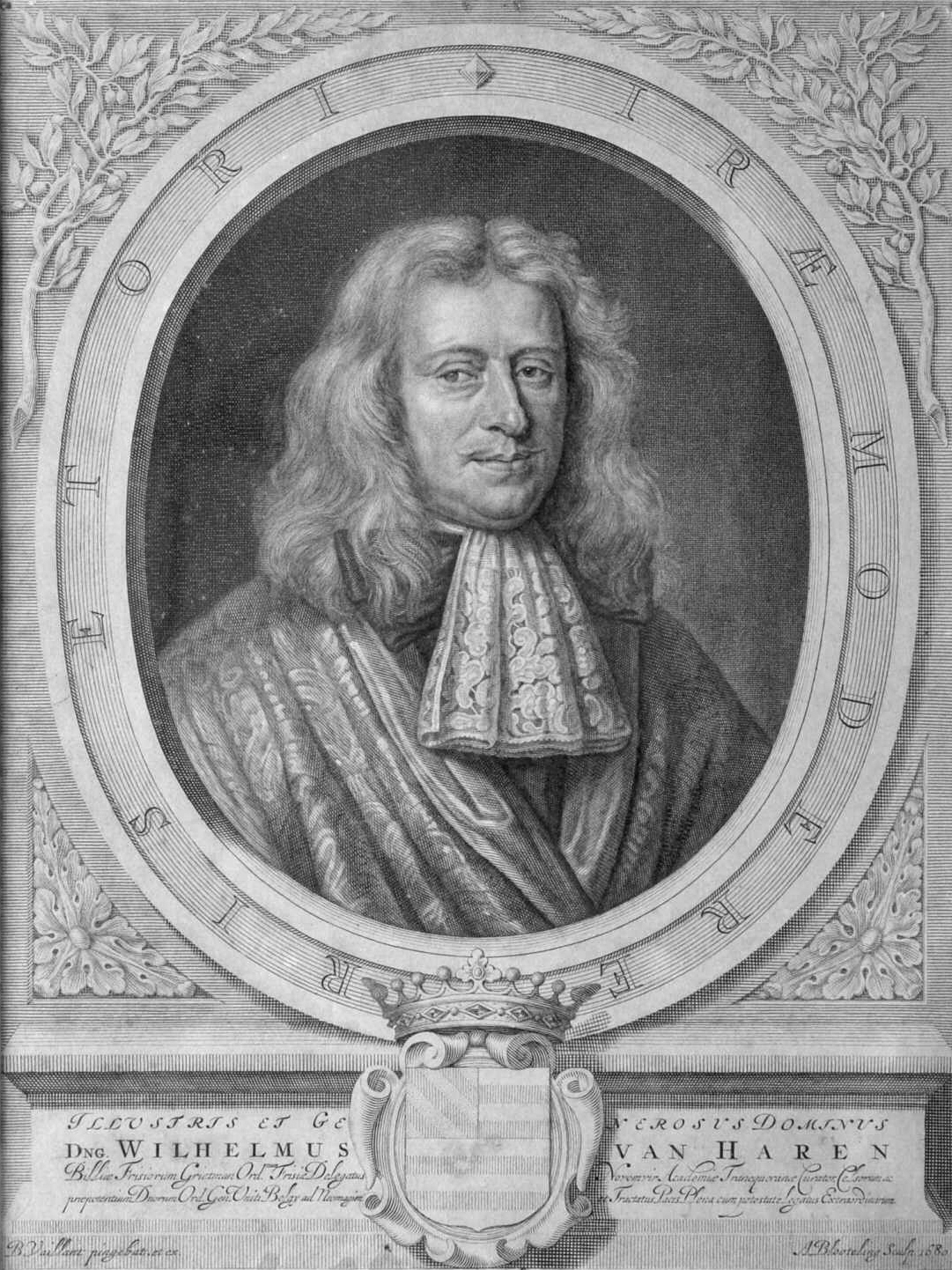 Willem van Haren (1626-1708) by Abraham Blooteling after a painting by Bernard Vaillant